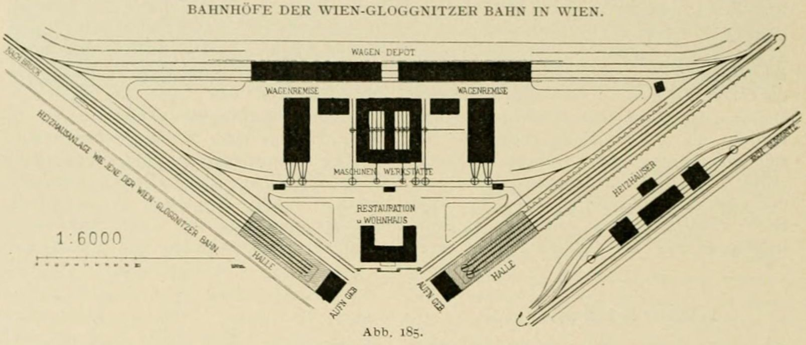 Drawing of the rail stations from the Wien-Gloggnitzer Bahn in Vienna